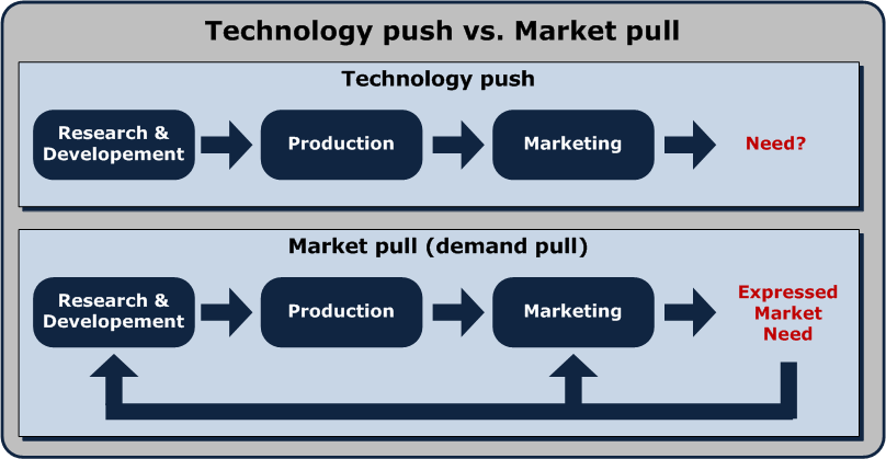 The image shows a technology push, mainly driven by internal R&D activities and market pull, driven by the external market forces.[1]. Shematic presentation of technology push and market pull[1].